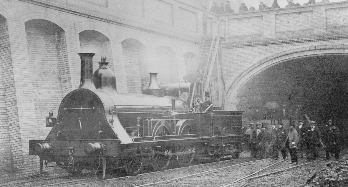 Metropolitan Railway fireless locomotive "Fowler's Ghost". This is the only known photograph of this locomotive. It is standing near Edgware Road station on the Metropolitan Railway in about 1865.